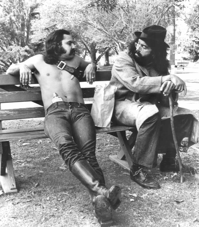 Publicity photo of the comedy team Cheech & Chong.